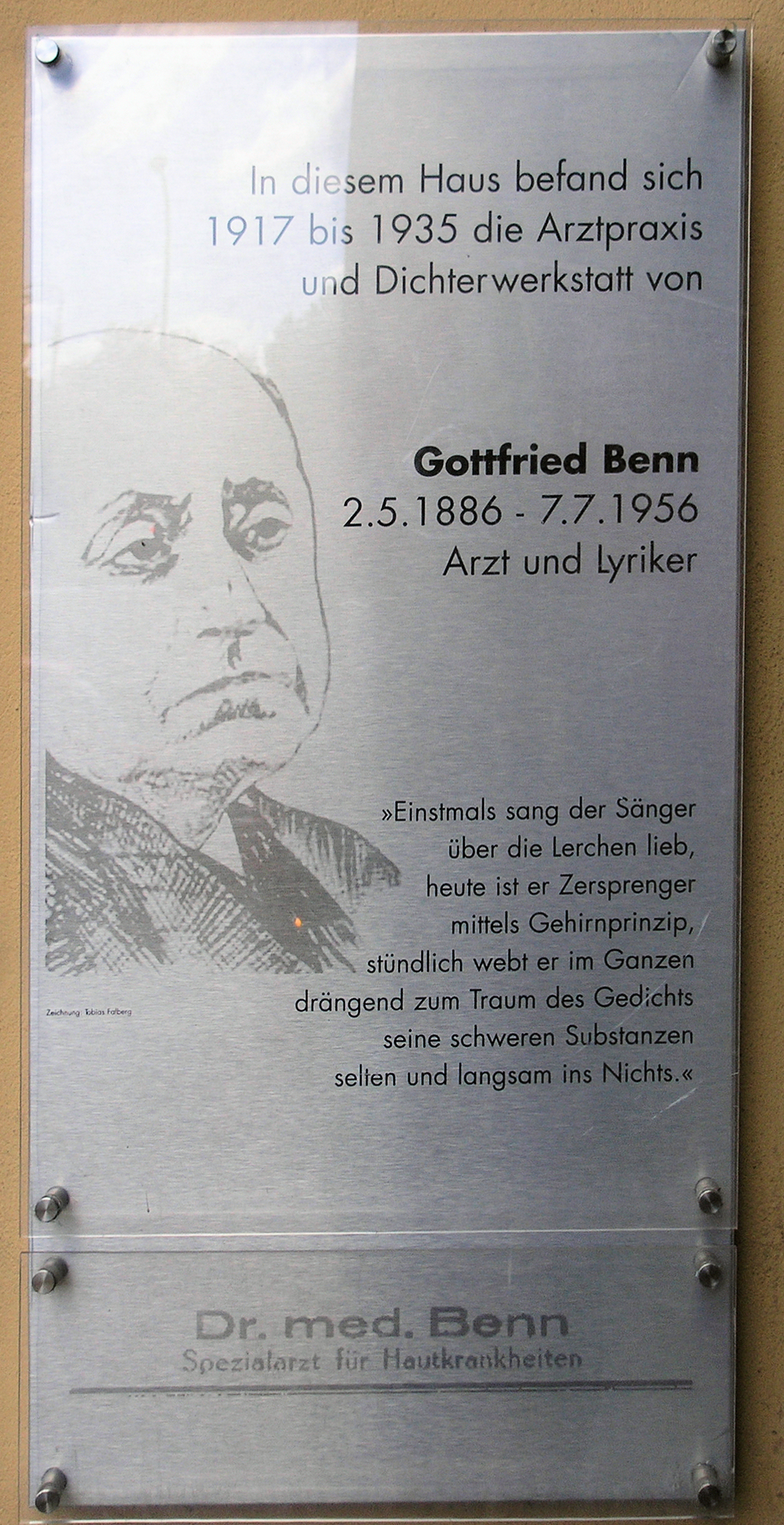 Memorial plaque, Gottfried Benn, Mehringdamm 38, Berlin-Kreuzberg, Germany Koordinate:52°29′37″N 13°23′7″E / 52.49361°N 13.38528°E